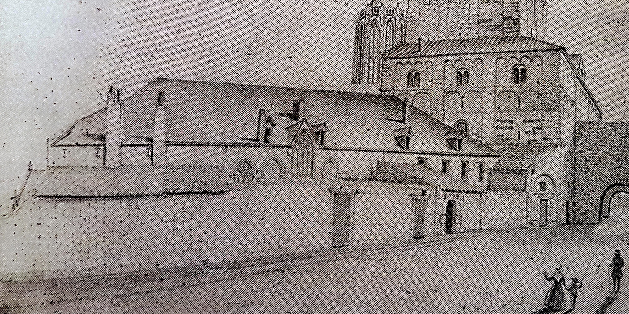 View of Sint Servaasklooster around 1860 in Maastricht, the Netherlands. The cloister buildings in the foreground were largely rebuilt during the Cuypers renovations in the late 19th century. In the background parts of the westwork of the Basilica of Saint Servatius and the church tower of St. John's. Detail of a drawing by local artist Jan Brabant (1806-1886).